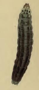 Stainton’s Natural History of the Tineina (1855–1873): Syncopacma albipalpella